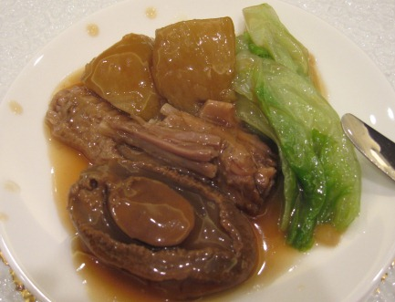 cooked whole abalone with duck feet and pomelo skin from Fook Lam Moon (福臨門) Chinese restaurant in Hong Kong